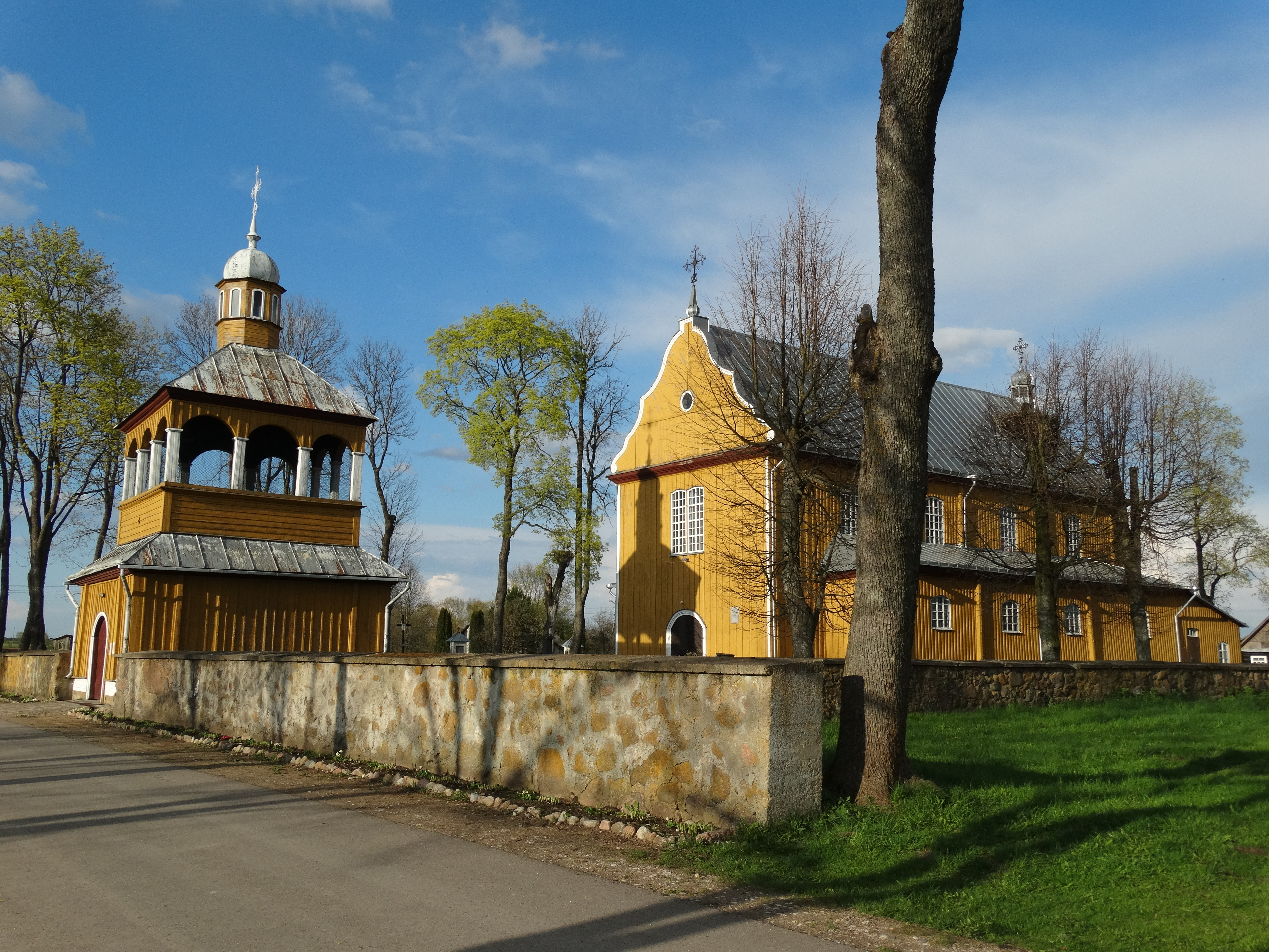 St. Michael Archangel church, Tabariškės, Šalčininkai District, Lithuania